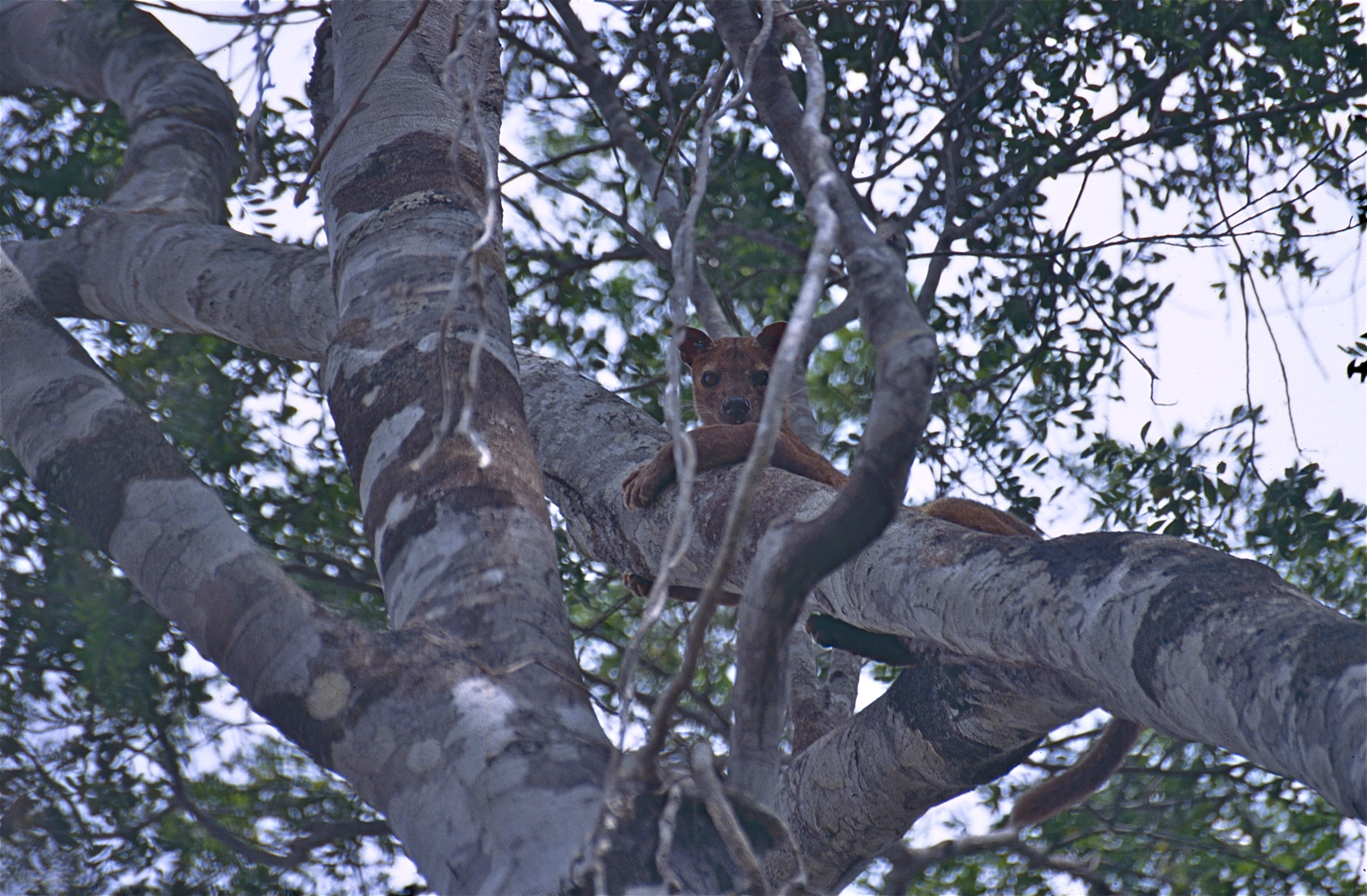 Kirindy Forest, MADAGASCAR Scanned Slide from 1998